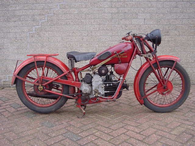 Moto Guzzi Sport 15 500 cc IOE from 1931.